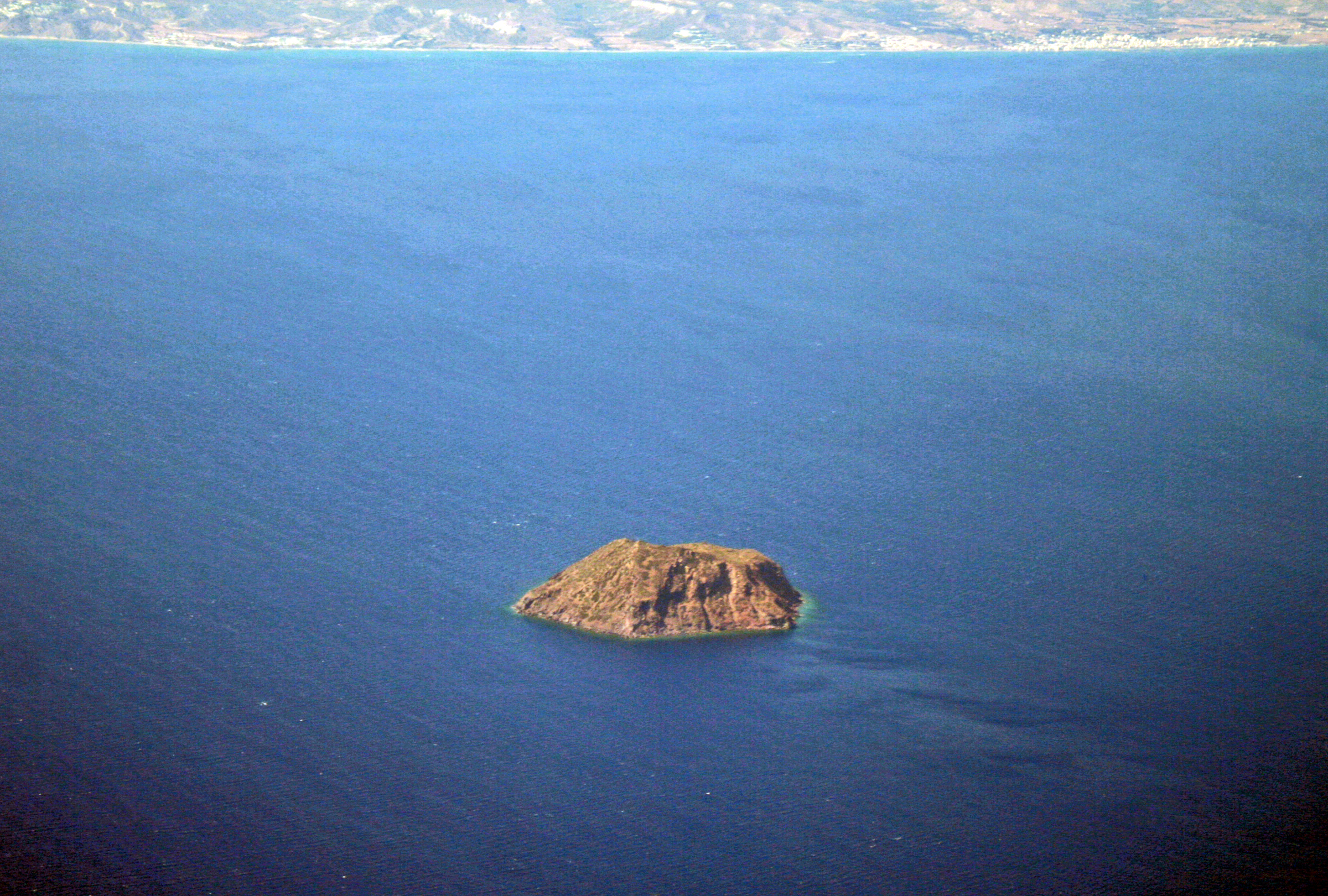 Greece island Strogyli from air